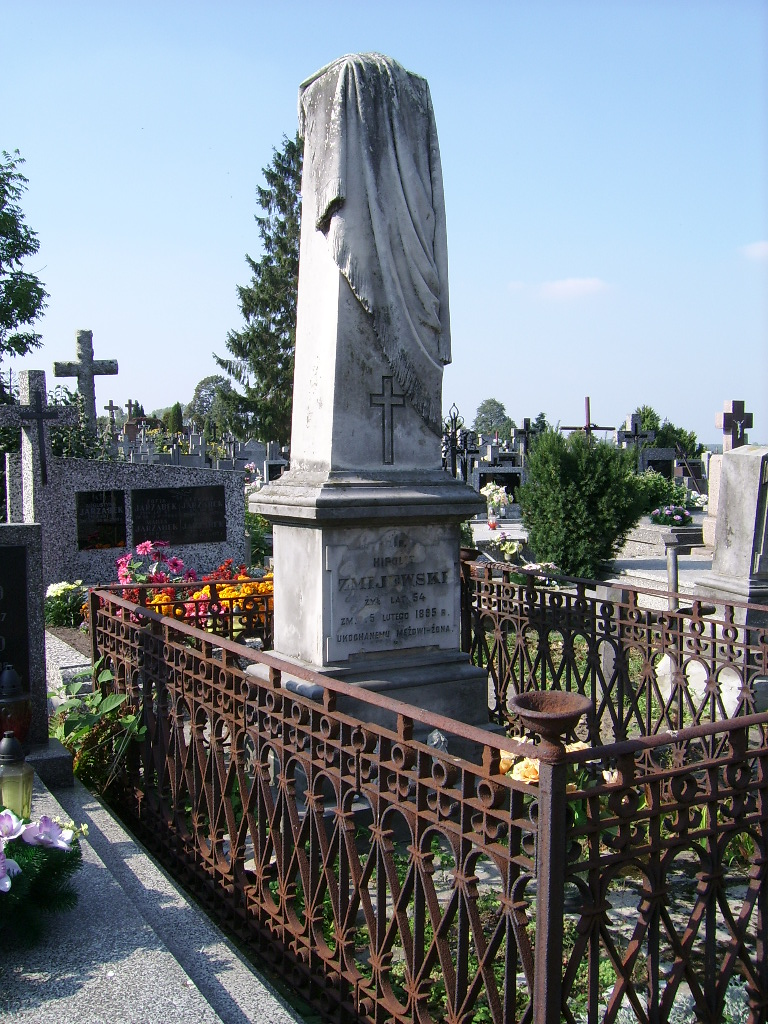 Gravestone from 1895 in Żelechów, Poland